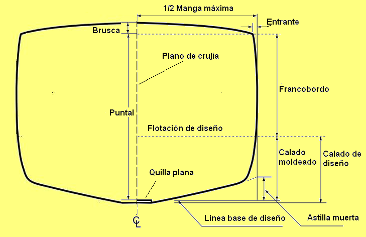 Ship's tranversal dimension (spanish)